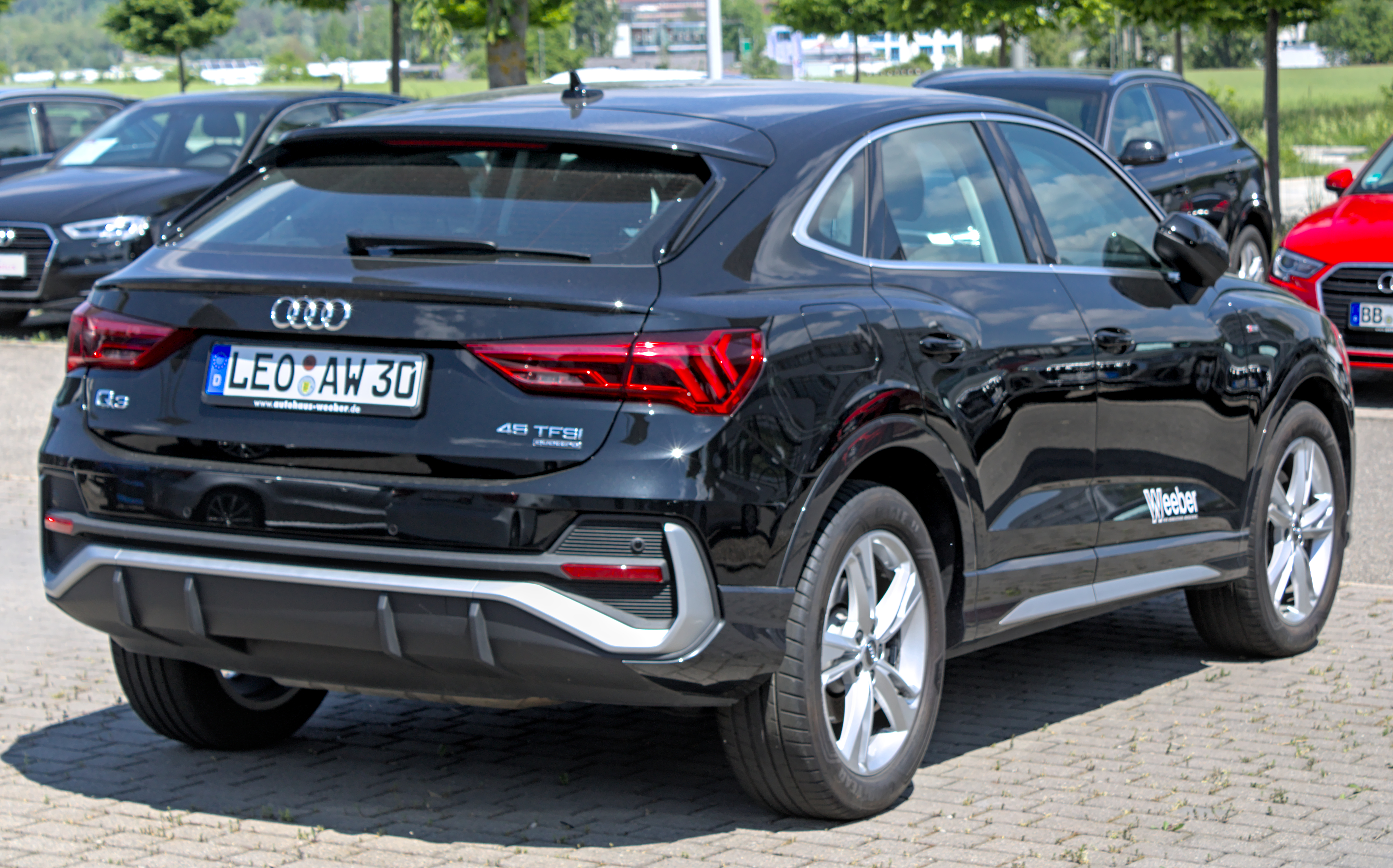 Audi_Q3_Sportback in Herrenberg